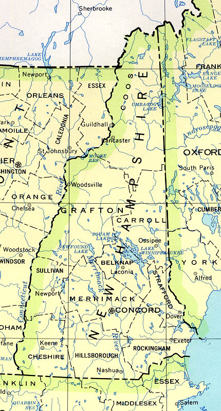 County boundaries and names, county seats, rivers. Original scale 1:2,500,000.